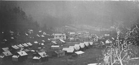 Coal mining camp at Briceville, Tennessee, United States